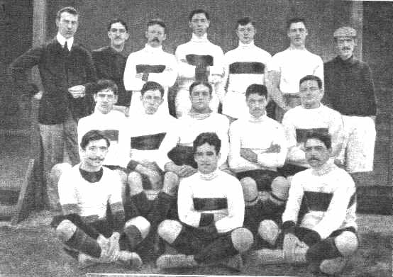 Centro de Estudiantes de Ingeniería, the first rugby team formed by native players in Argentina.